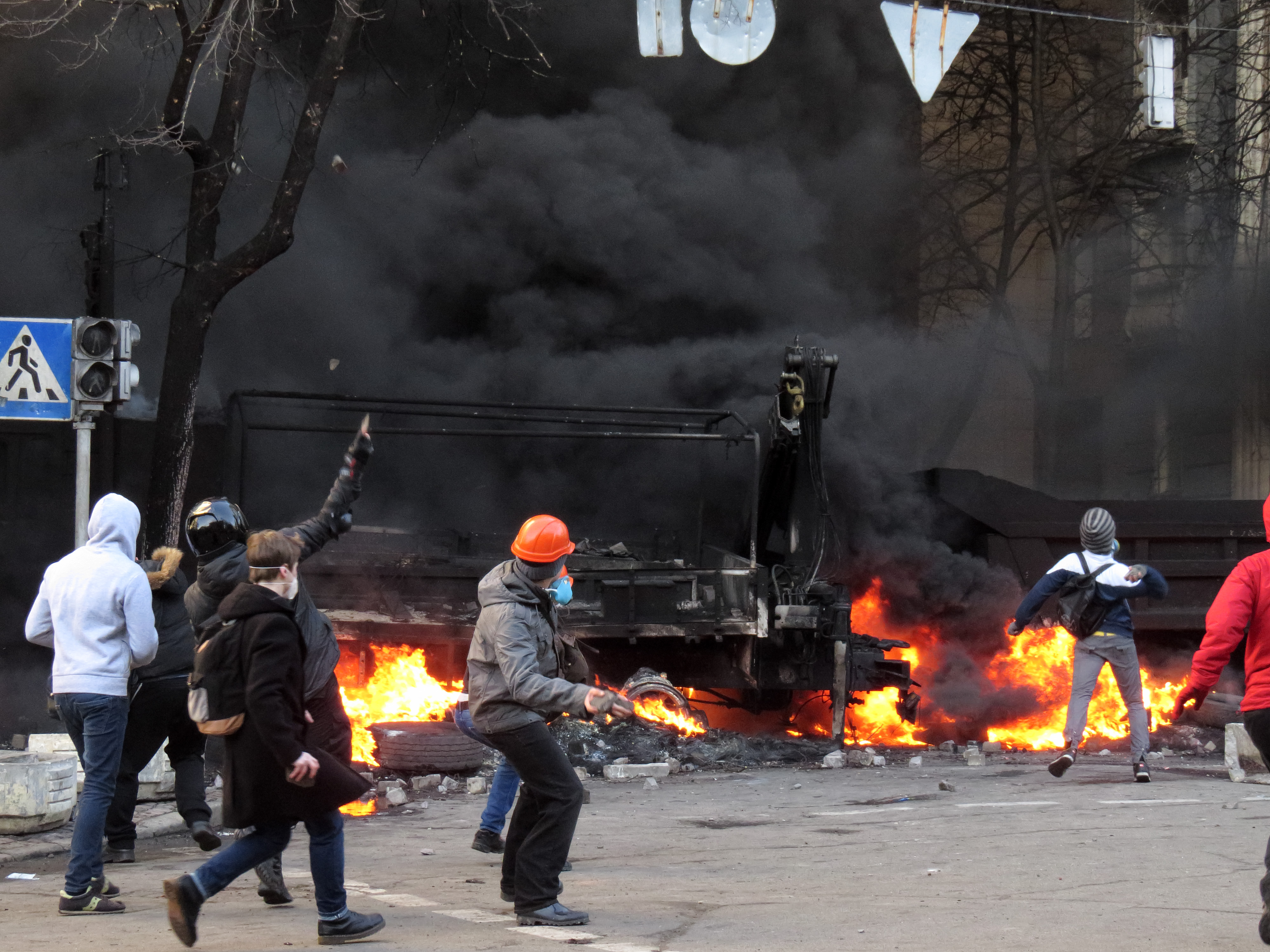 Kiev, February 18, 2014. Intersection of Instytutska/Sadova. Protesters attacking police troops, which are behind „fire barricade“. Protesters throw stones and „Molotov cocktails“ and run out, policemen also throw stones, gas and stun grenades